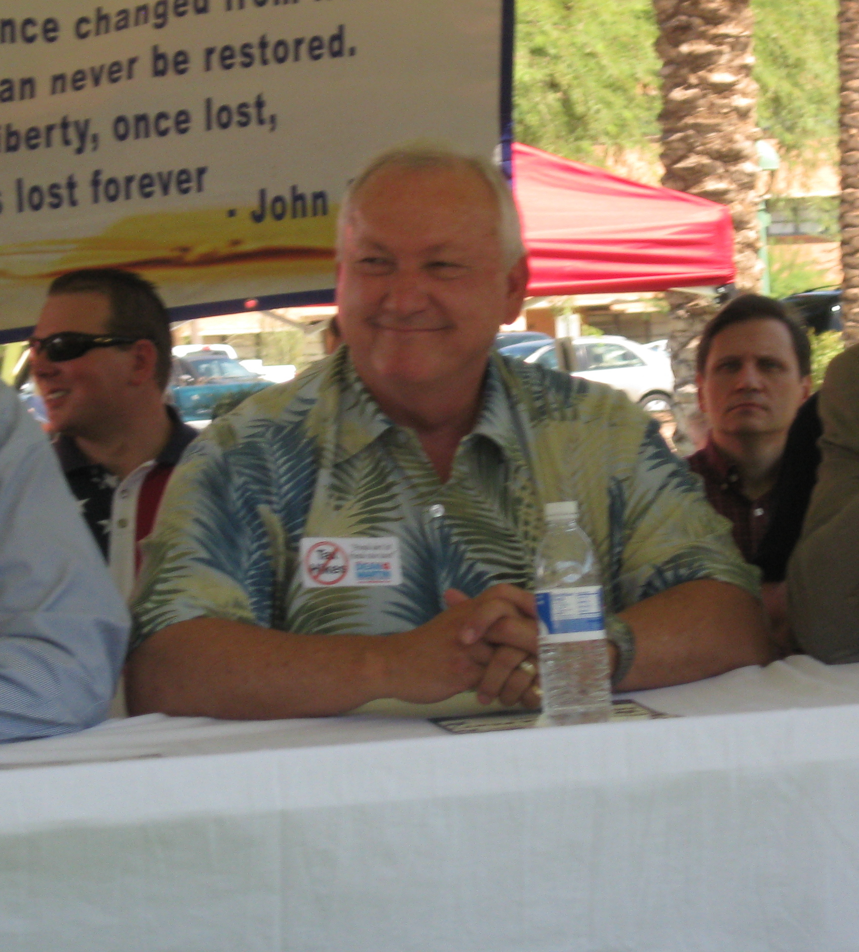 Arizona State Senator Russell Pearce at the “Phoenix 912 Event”, T.E.A. Party, on September 12, 2009 at the Arizona State Capital.